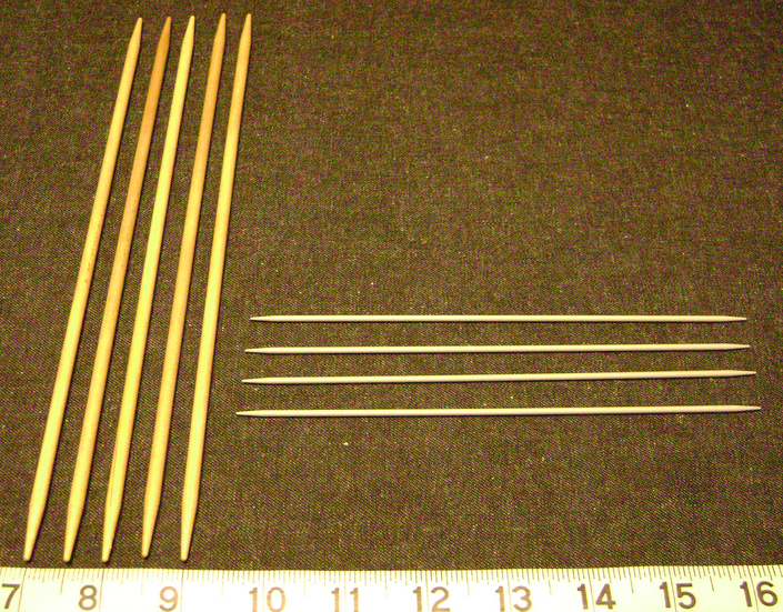 Double-pointed knitting needles, sometimes used for socks, collars and sleeves. Typically they come in sets of four or five; shown here are US size 8 in wood (left), and US size 1 in aluminum (right).